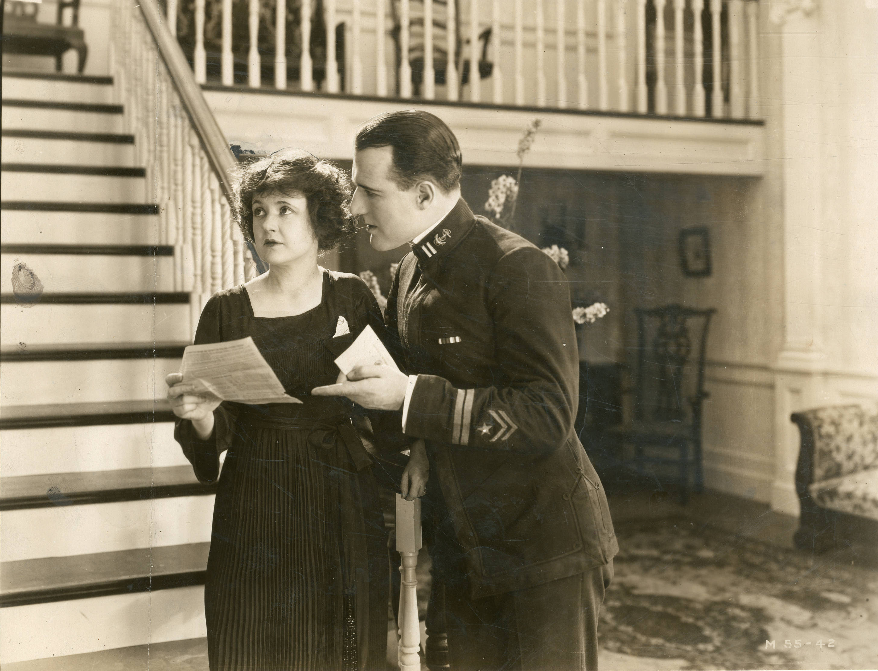 A scene from the American romantic comedy film Widow by Proxy (1919), which played at the Strand Theater, Seattle. Includes Marguerite Clark. Date stamped Oct. 28, 1919. Subjects: motion pictures, actresses